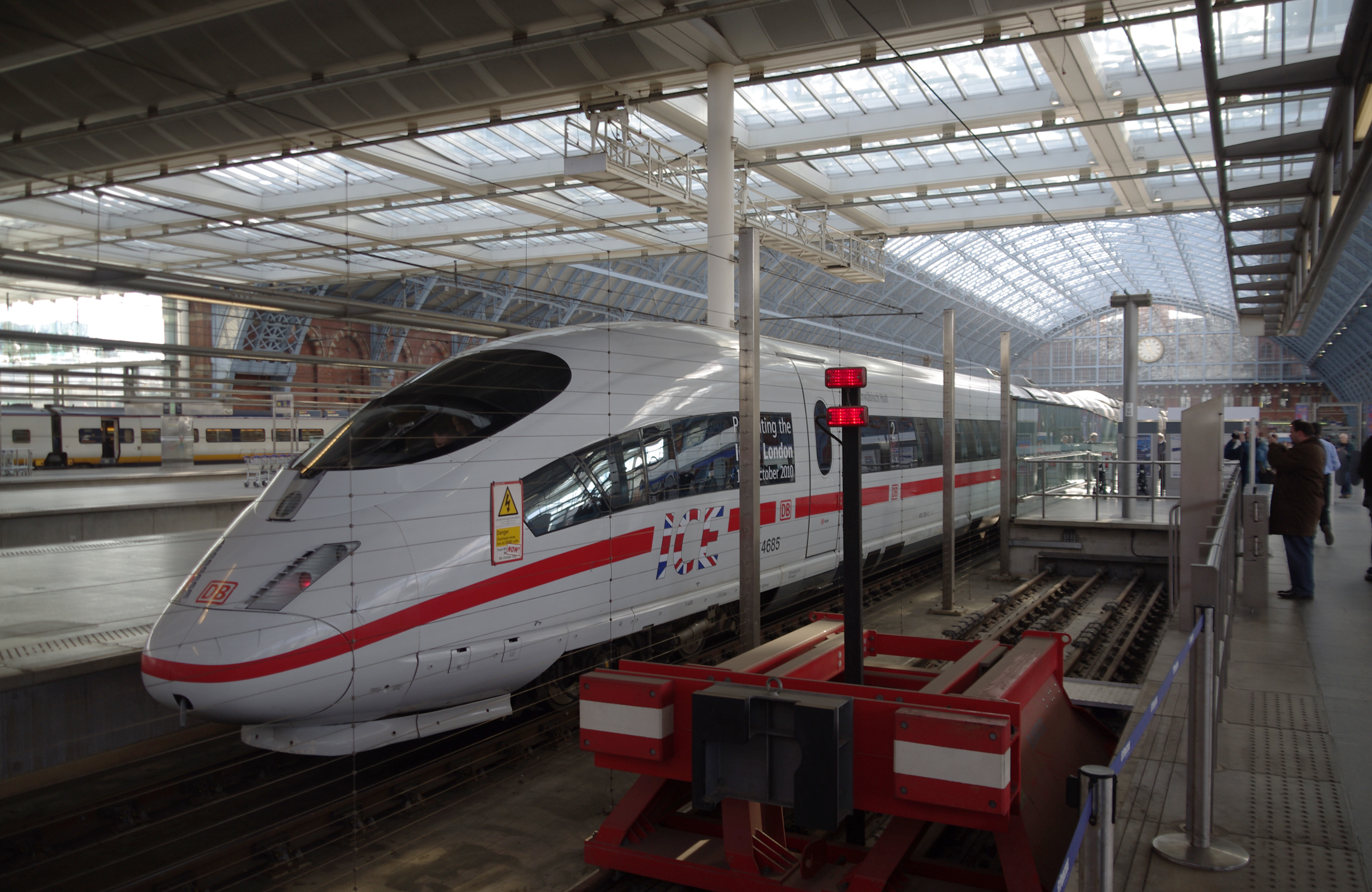 Deutsche Bahn AG Class 406 "ICE 3M" high speed EMU 406-585 "Schwäbisch Hall" stands at London St Pancras. This was the first time such an ICE train had travelled to Britain. DB had hoped to operate a regular service from London to Germany by 2012, those plans have been deferred so as to not compete with France’s SNCF – SNCB does not expect DB to run to London.